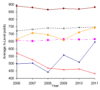 Image illustrating the average A-Level points per students at Sixth Form centres in Bishop Auckland. National Average and LEA Average are also sketched in.